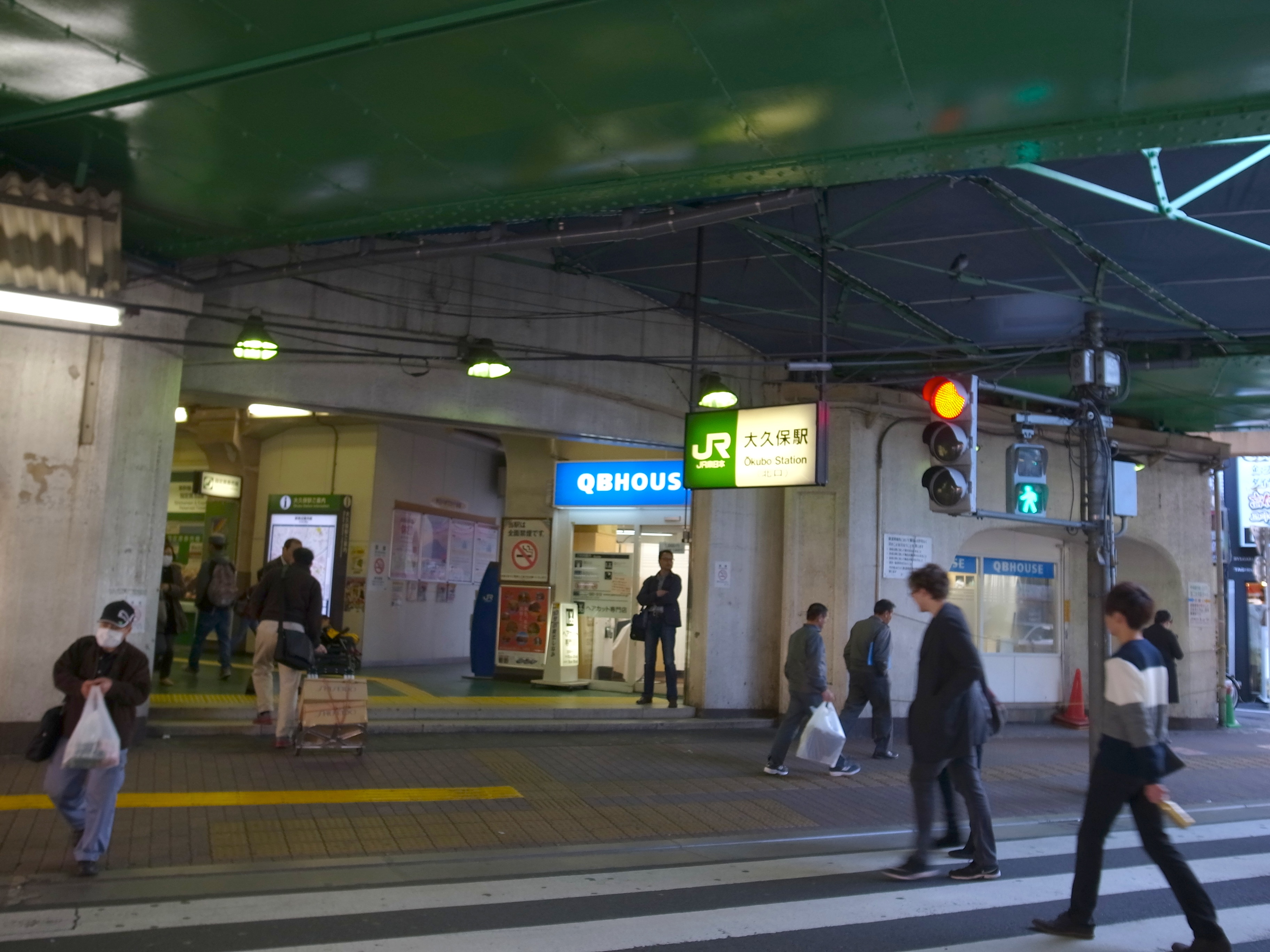 Ōkubo Station North exit